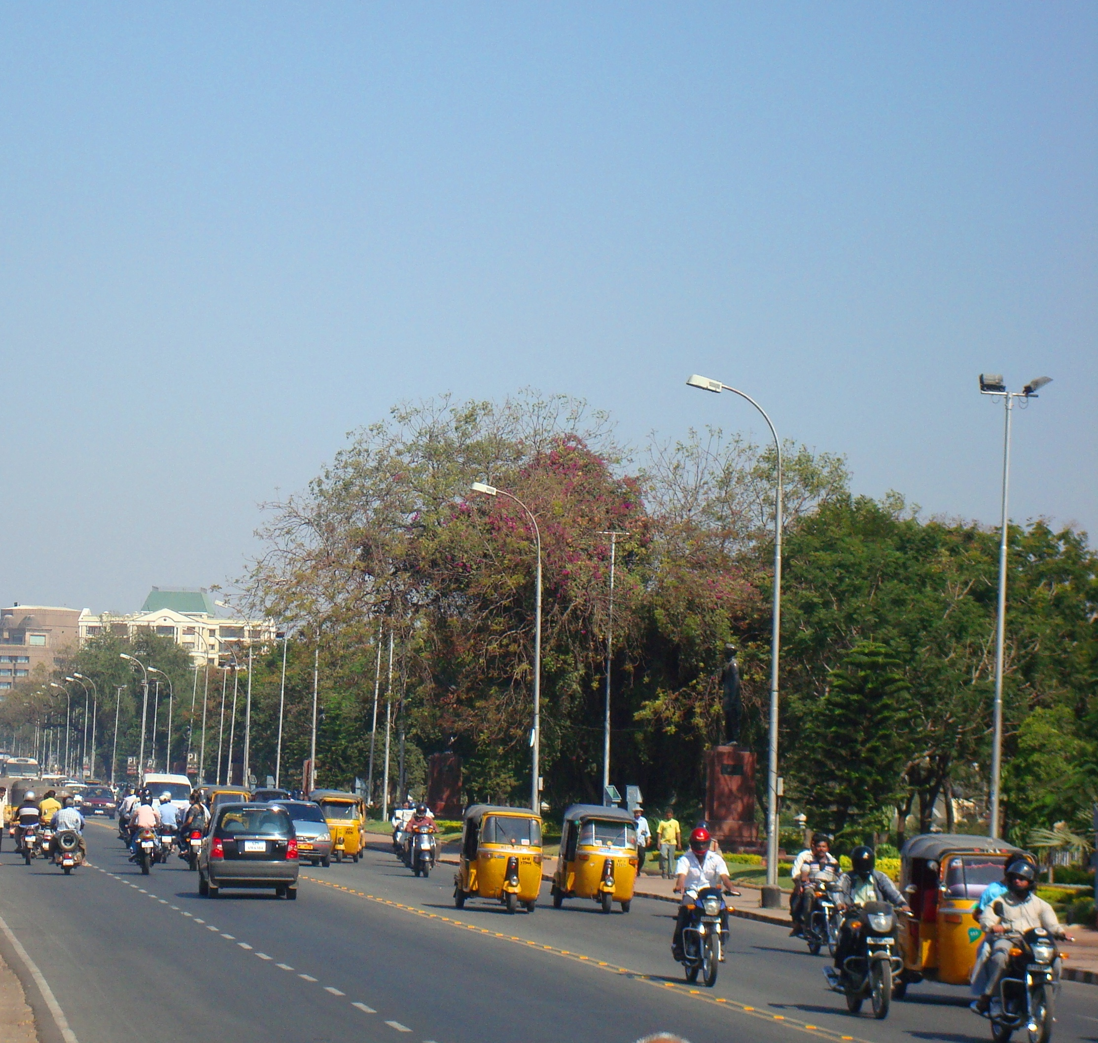 The image shows the Tank bund road. I have taken the picture of this important road which connects the twin cities.